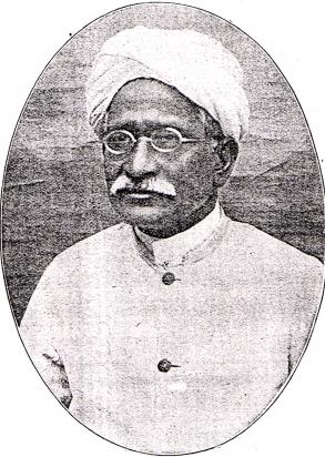 From our family archives. Rev. N. Samuel